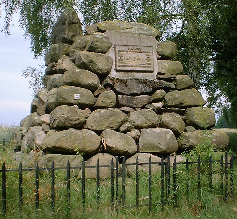 Memorial of the camp (1741) in Reckahn in Brandenburg, Germany